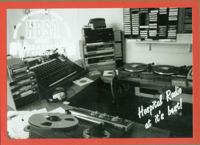 The Original Studio 1 at ACH in Irvine.